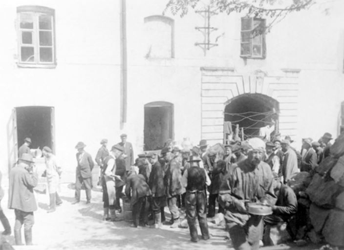 Red Guard prisoners of 1918 Finnish Civil War at Sveaborg prison camp, Helsinki, Finland.